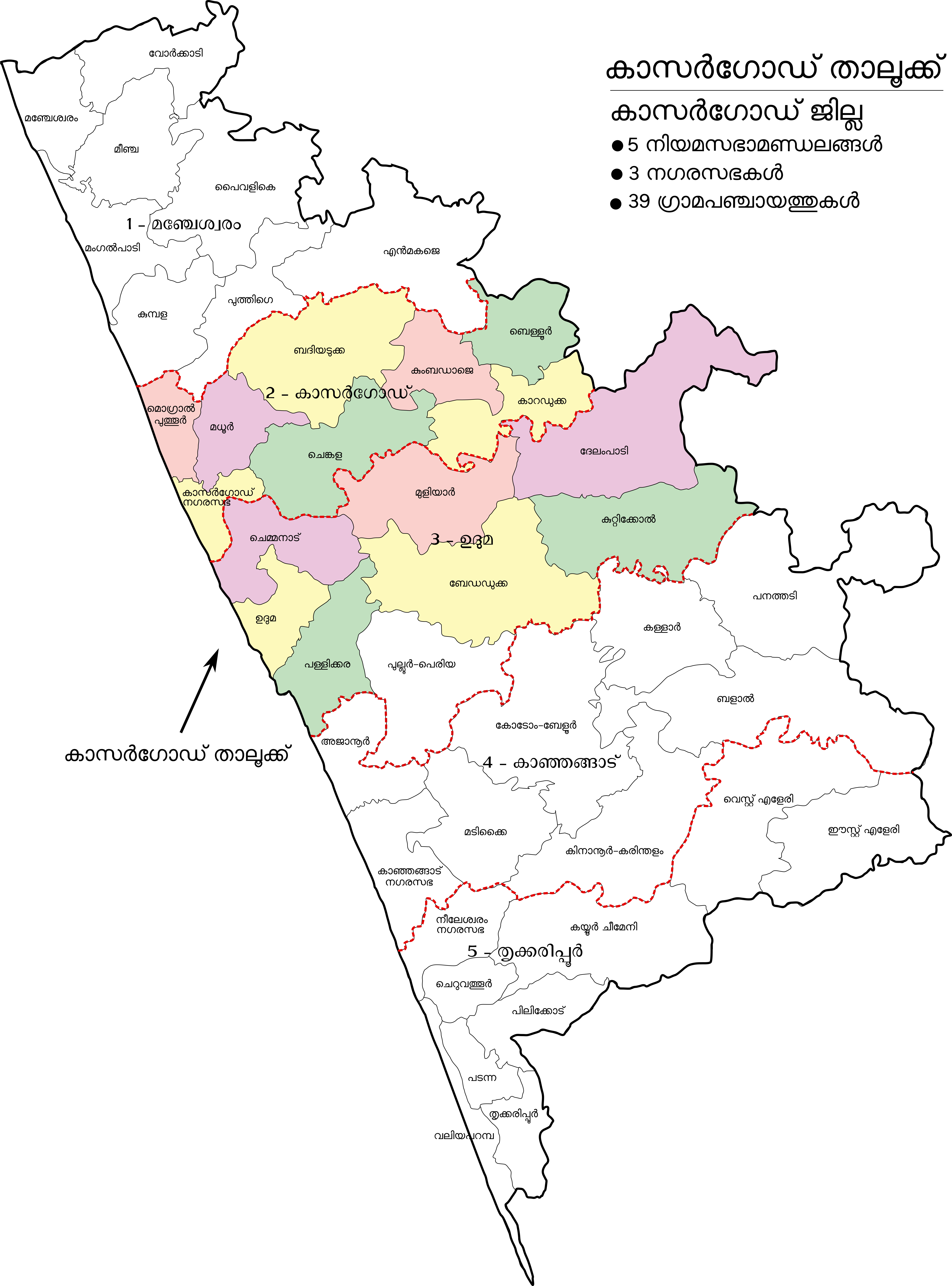 Blocks and Panchayats of Kasaragod Thaluk